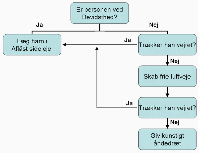 First aid flow chart in Danish